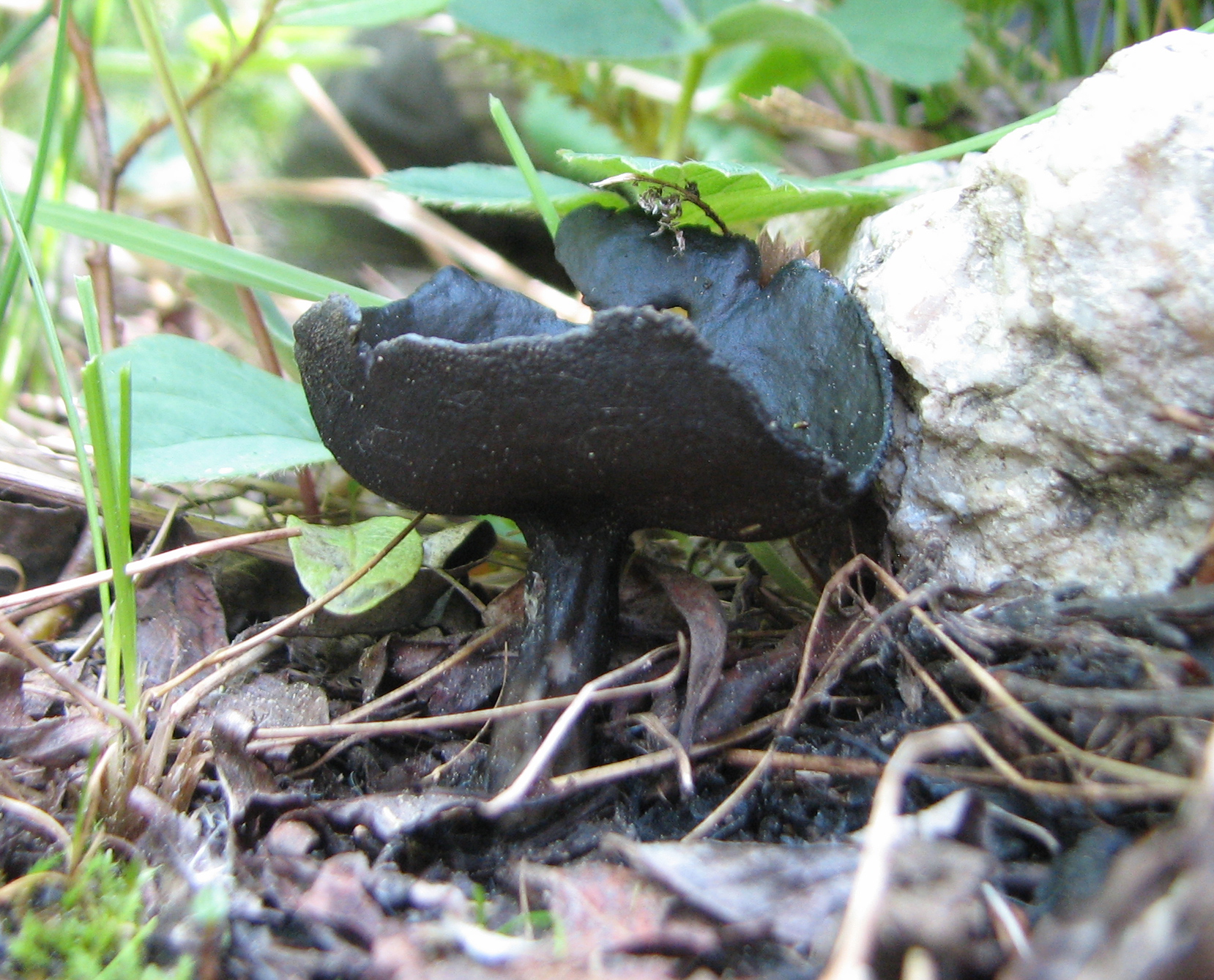 The mushrooms Helvella corium. Photographed in Grizzly Mine, Summit County, Colorado. Notes: "There were 3 of these, growing near a stream that was running out of an abandoned mine. The mushrooms were growing on soil, not on buried wood. The stem is no longer than that showed in the picture, and is pitted, as seen in the photo."